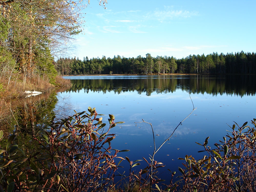 Lake Harpsjön in Obbola, Västerbotten county, Sweden. View from the west. Bog-myrtle in the foreground.